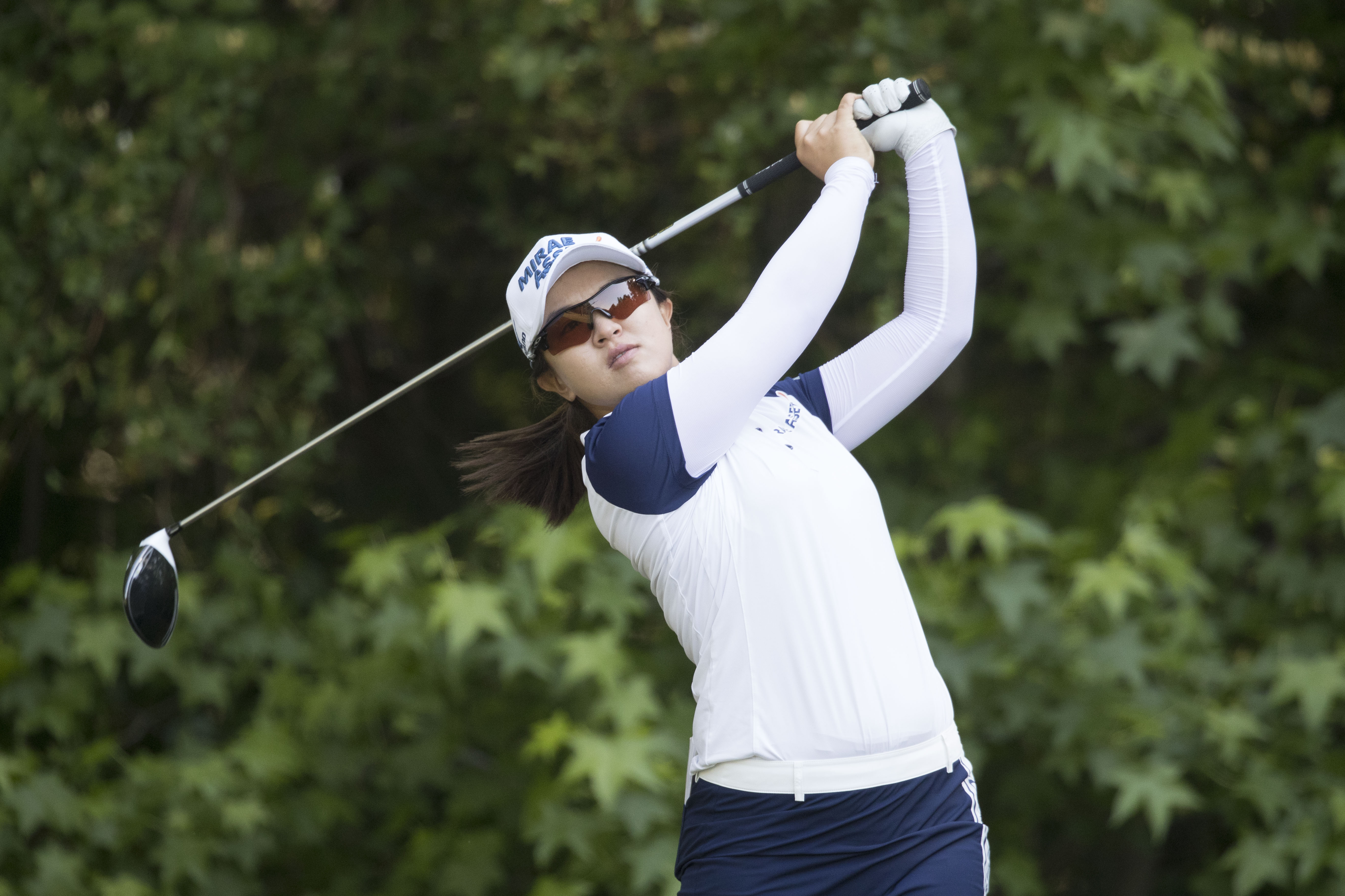 South Korean golfer Kim Sei-young at the LPGA Kingsmill 2017